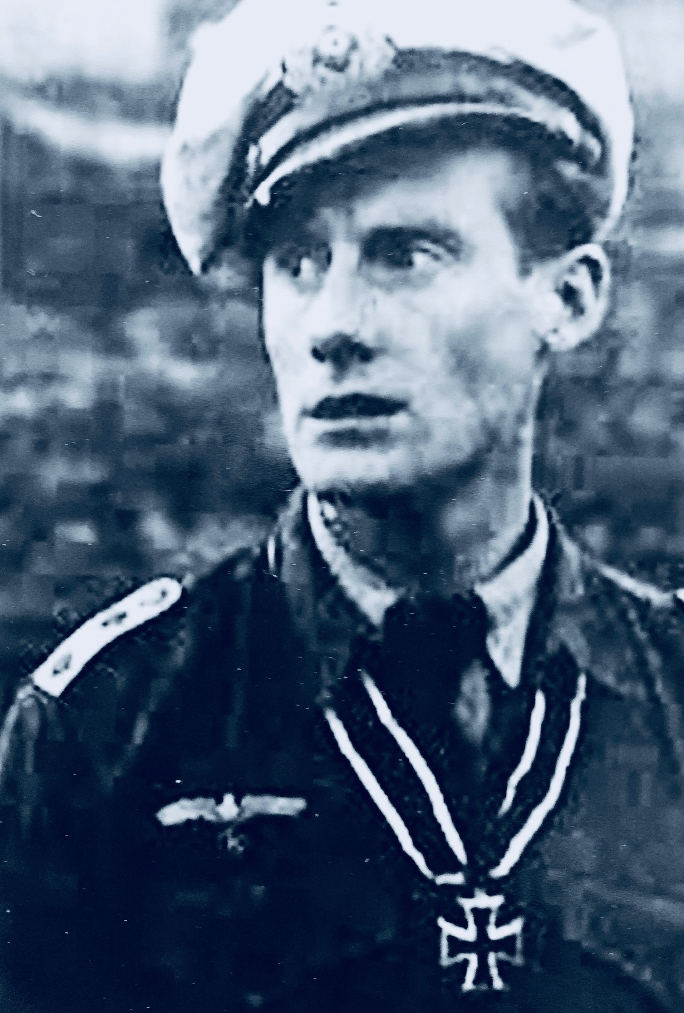 Foto of Paul Brasack with Knights Cross 1.11.1944 in Narvik